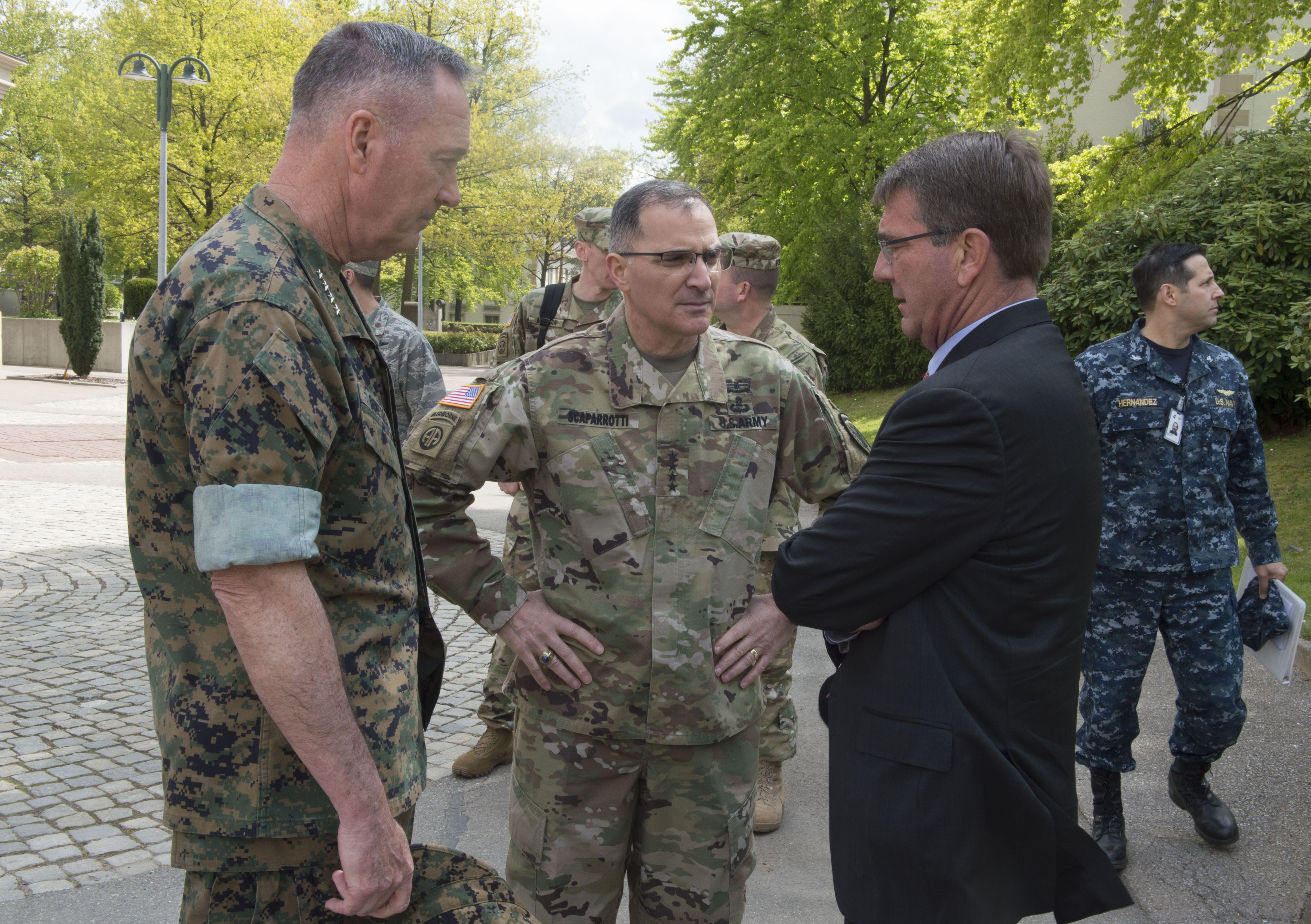 STUTTGART, Germany(May 3, 2016) Secretary of Defense Ash Carter speaks to Chairman of the Joint Chiefs of Staff Gen. Joseph Dunford and United States European Command Commander Gen. Curtis Scaparrotti. Air Force Gen. Phillip Breedlove was relieved by Army General Curtis Scaparrotti as Commander of EUCOM and NATO Supreme Allied Commander (DoD photo by Navy Petty Officer 1st Class Tim D. Godbee)(Released)